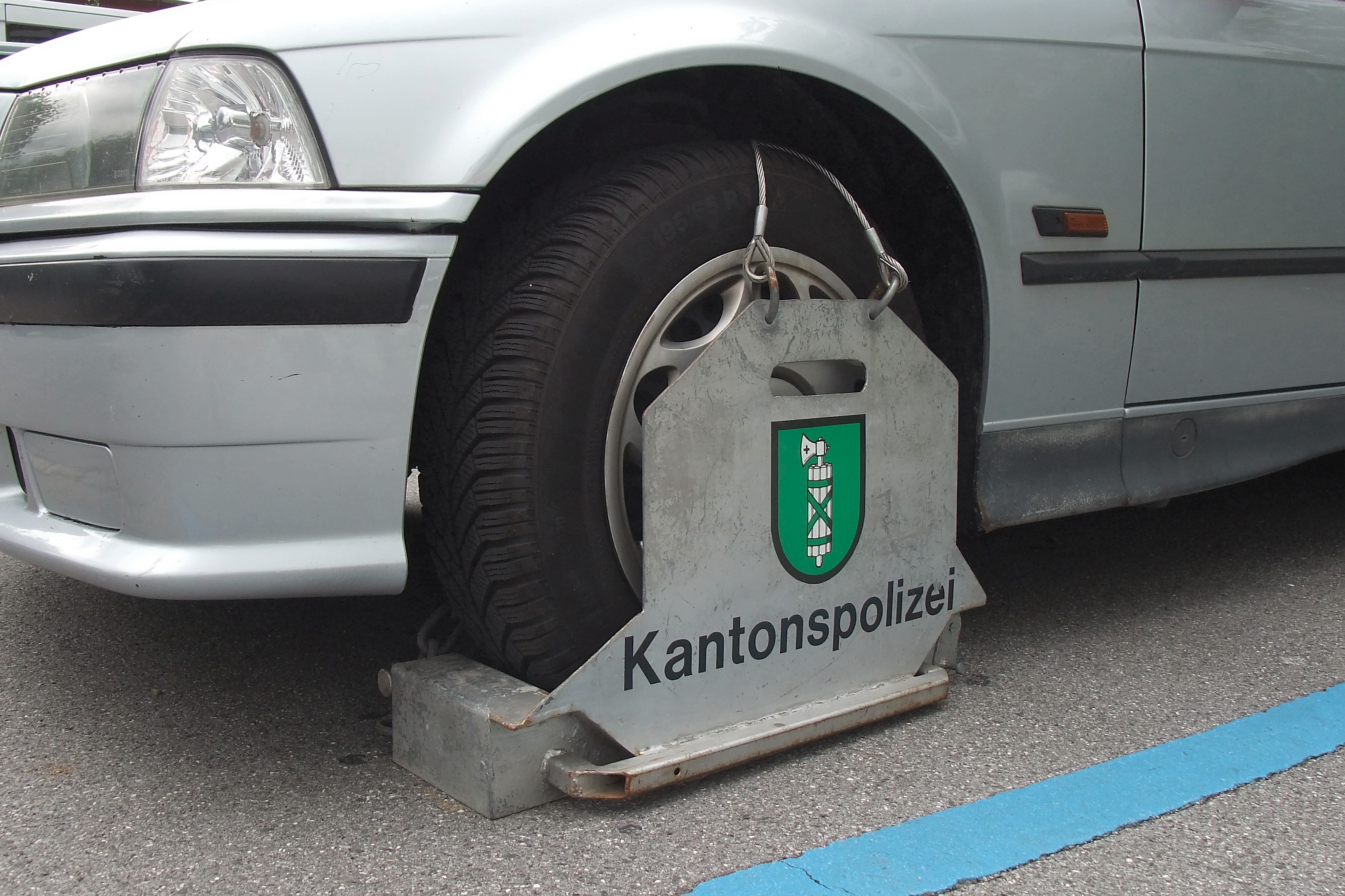 A drag shoe of the police. They would like to talk with the owner of the car. The car comes from another canton, and was parked here a few days ago by a young woman. Unfortunately, there were stolen license plate numbers at the car. This makes things more complicated. Heerbrugg, Switzerland, July 12, 2012.